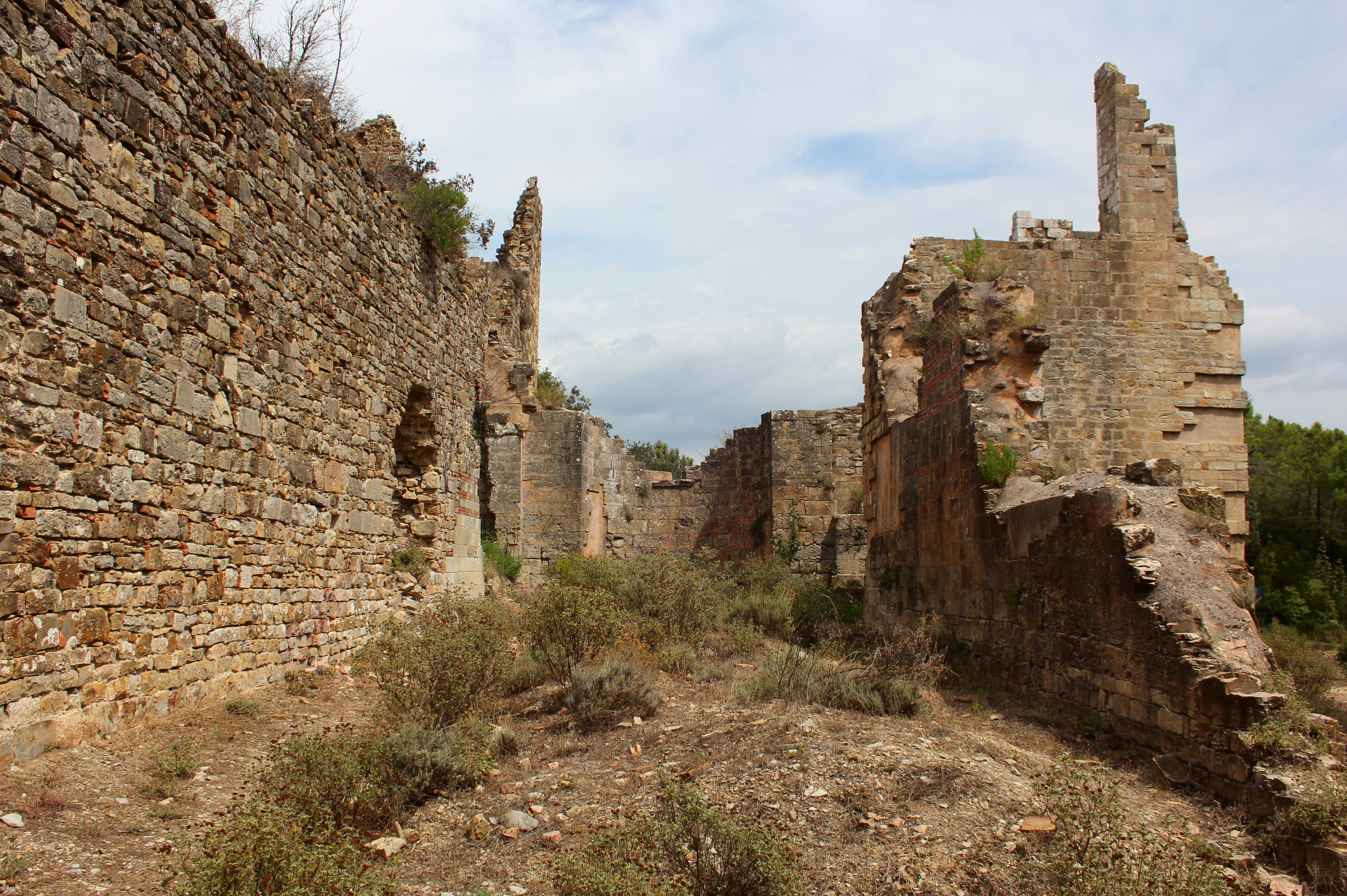 church and monastery ruin San Pietro in Palazzuolo, Poggia a Badia, Monteverdi Marittimo, Province of Pisa, Tuscany, Italy